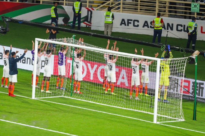 Thailand & India Group A match, 2019 AFC Asian Cup